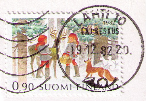 A Finnish postmark (Lahti, 19 December 1982) and Christmas stamp, published on 25 October 1982.